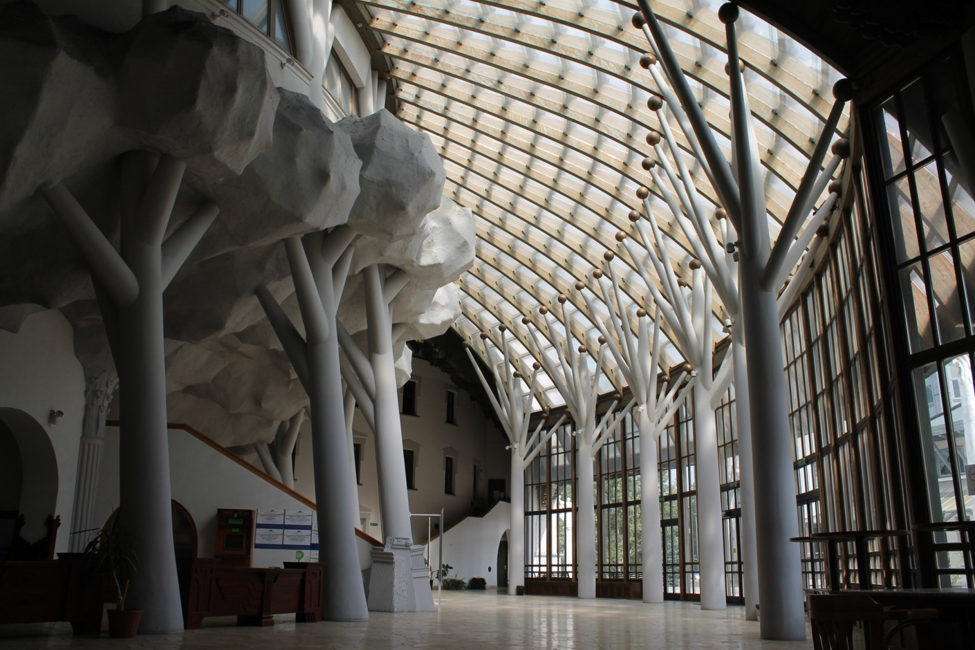 Stephaneum, Pázmány Péter Catholic University